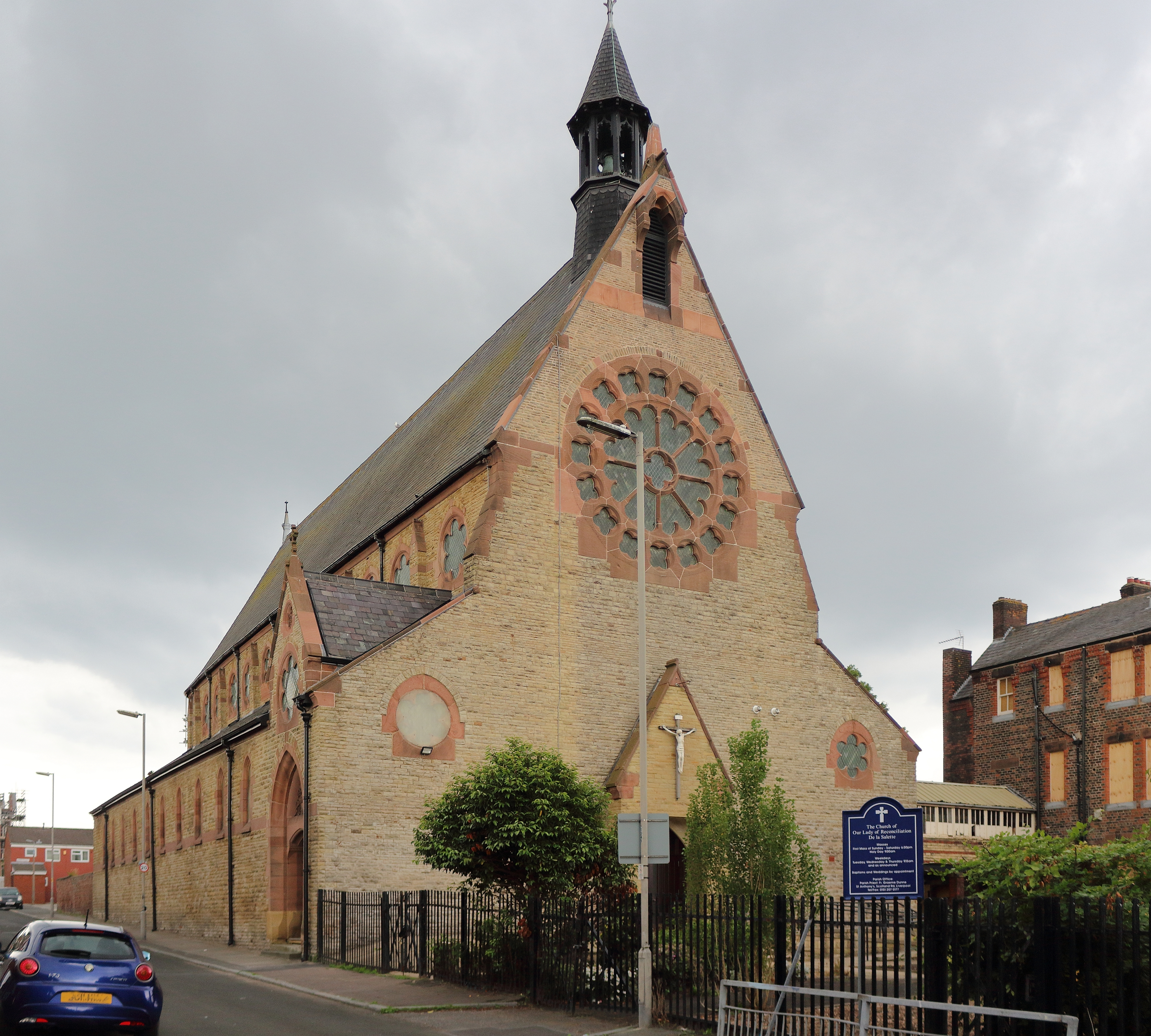 Grade II listed RC church by E. W. Pugin, 1869 - 70. View of the west end from Eldon Street.